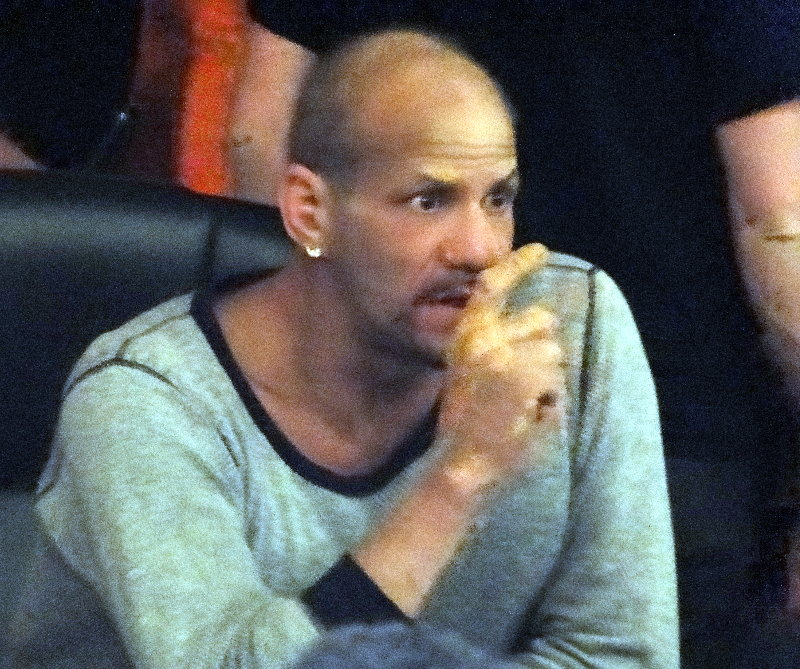 American boxer Tommy Morrison at Chiller Theatre in Parsippany, New Jersey. Note that Morrison's appearance is greatly changed from his early days as a boxer, when he had "flowing blond hair" (South China Morning Post). See, for example, an ESPN article with another photo from this event.